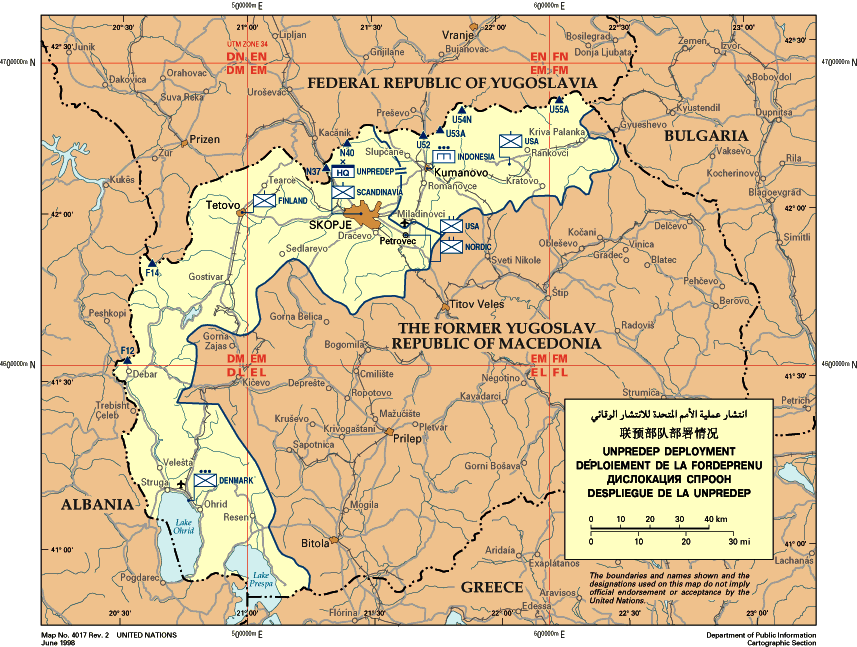 UNPREDEP deployment as of June 1998.